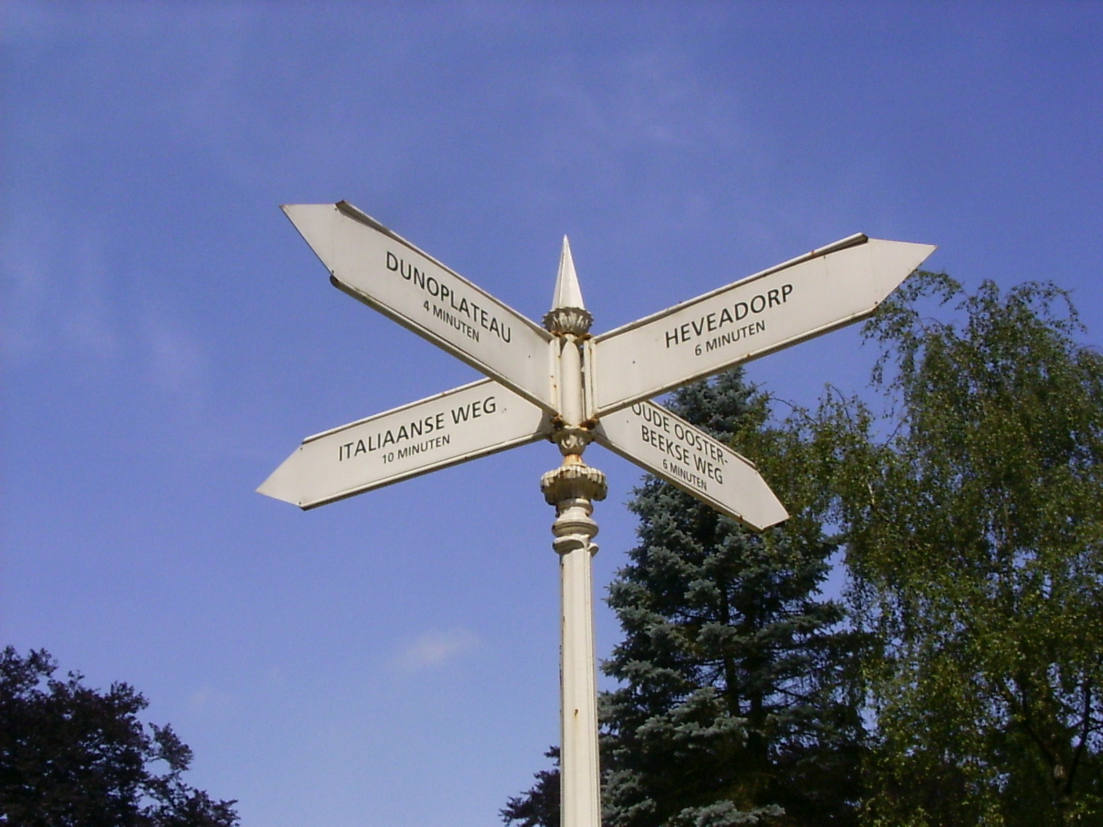 Doorwerth, Duno estate, fingerpost